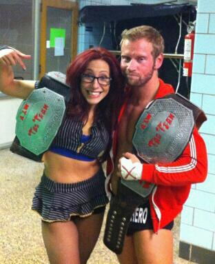 Greg Iron and Veda Scott. Photo courtesy of Greg Iron.